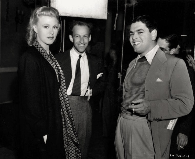 L. to R. : Ginger Rogers, Garson Kanin (director) & Pandro S. Berman (executive producer) on the set of Bachelor Mother - publicity still